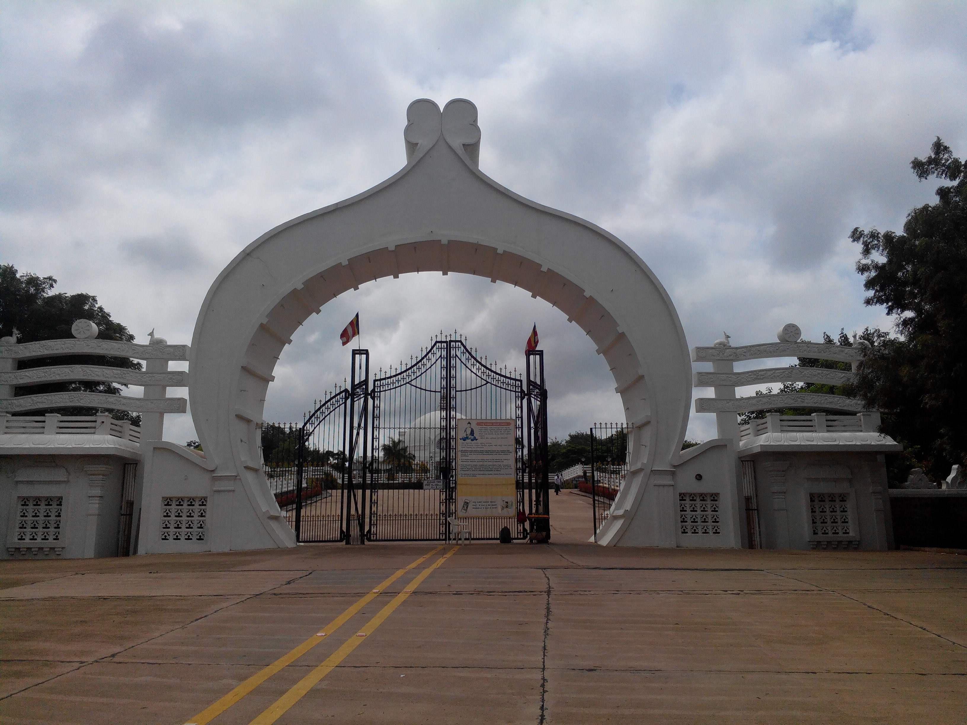 Budh Vihar Gulbarga